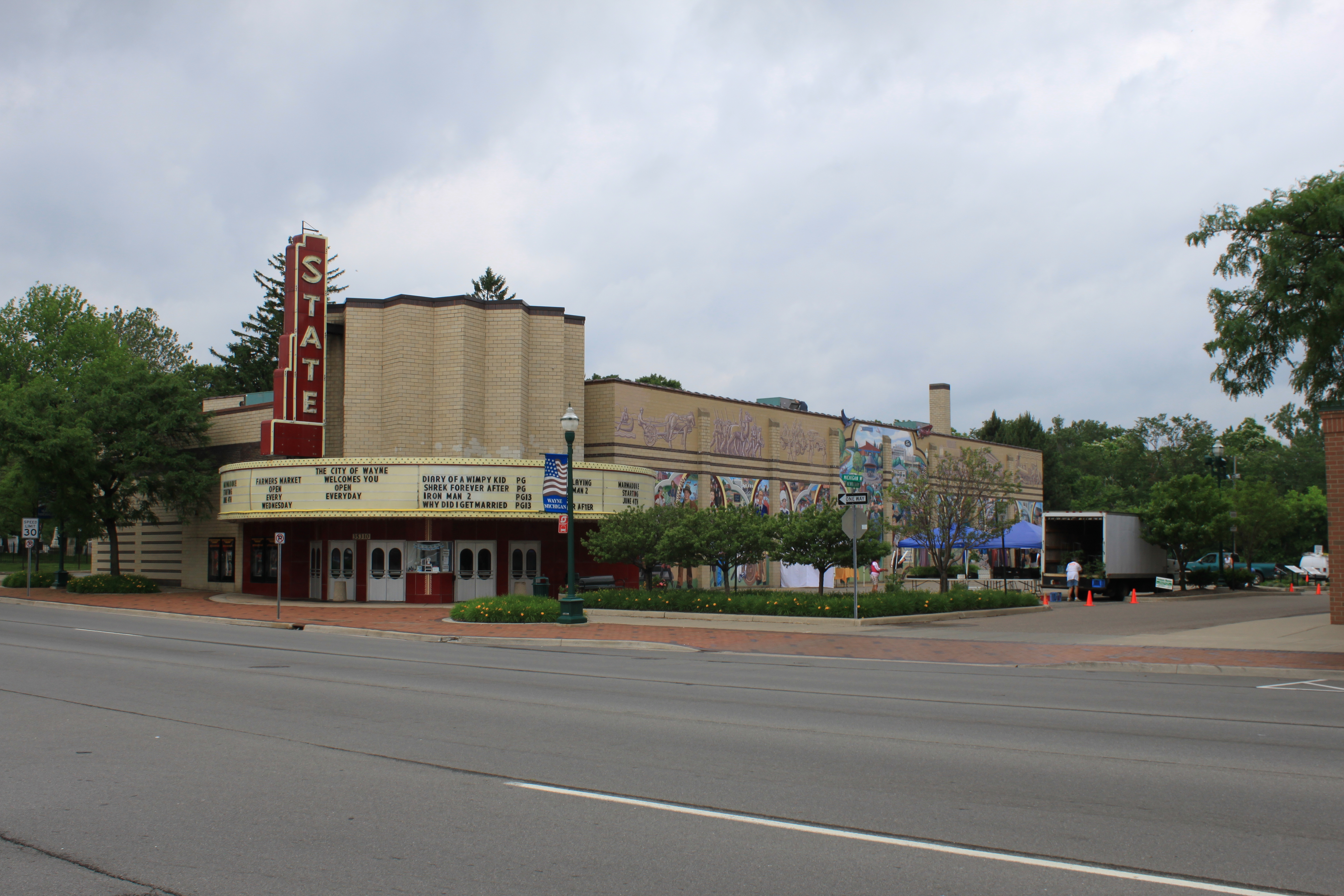 State Wayne Theather, Wayne Michigan